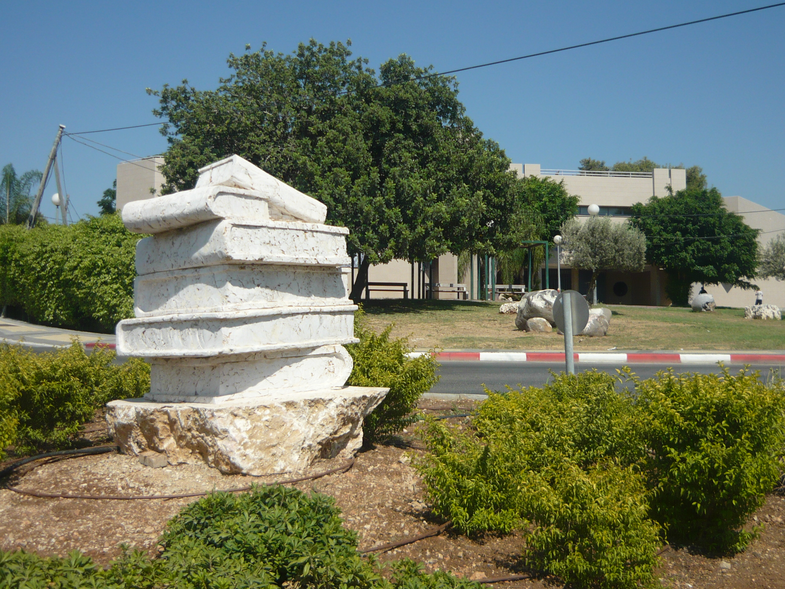 kikar hasfarim in migdal haemek כיכר הספרים במגדל העמק. בה נמצא הפסל "מילה בסלע" של האמן דני קדם. ברקע המרכז למוזיקה ולמחול על שם ד"ר ברנרד הלר